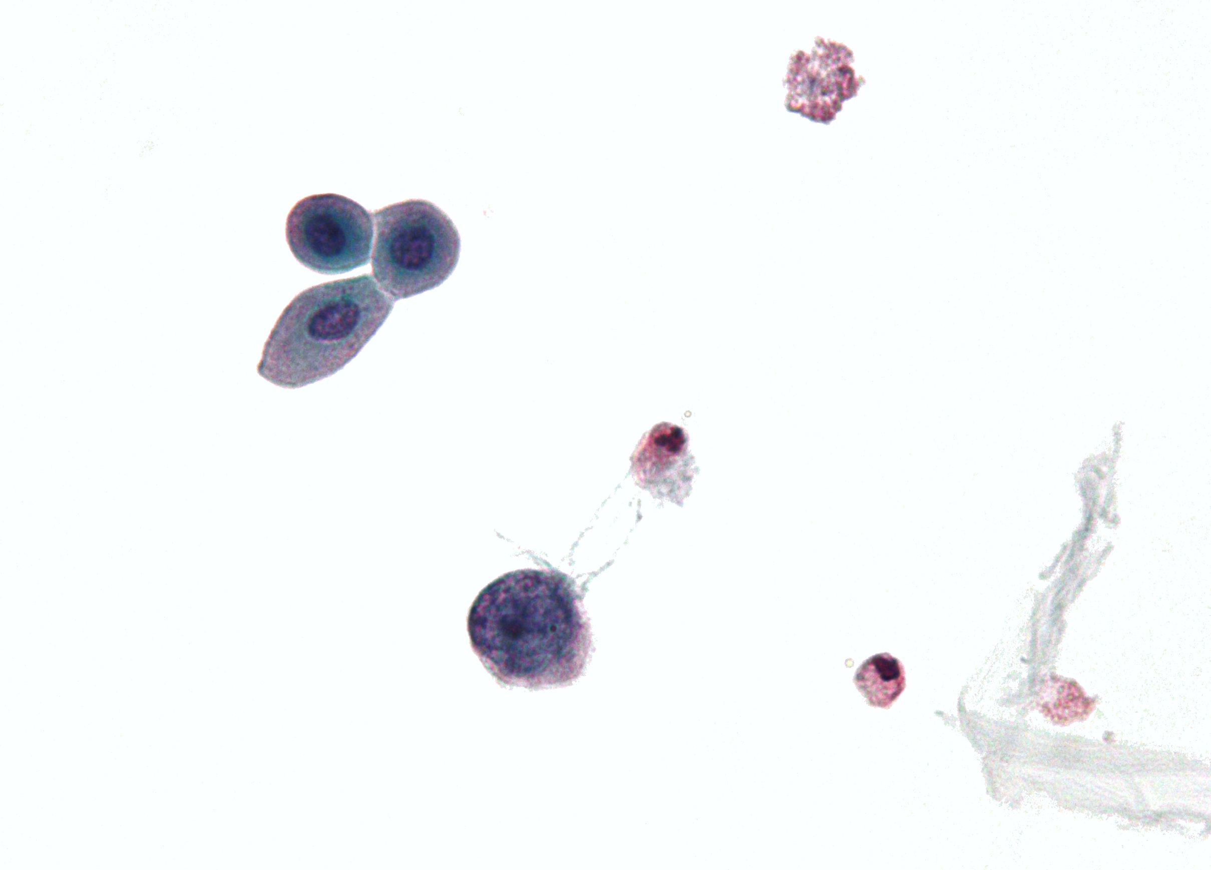 Micrograph showing a polyomavirus infected cell. Urine cytology specimen. Features of polyomavirus infected cells (also known as Decoy cells): Usually 2X the size of a basal urothelial cell nucleus. Single cells - important feature. Scant "degenerative-appearing" cytoplasm. High NC ratio. Intranuclear inclusions - key feature. Central smudging (or "wash-out") of the chromatin/"Ground glass" chromatin. Surrounded by clear halo just deep to the nuclear membrane. Nuclear membrane clumping. See also Image:Polyomavirus 2.jpg